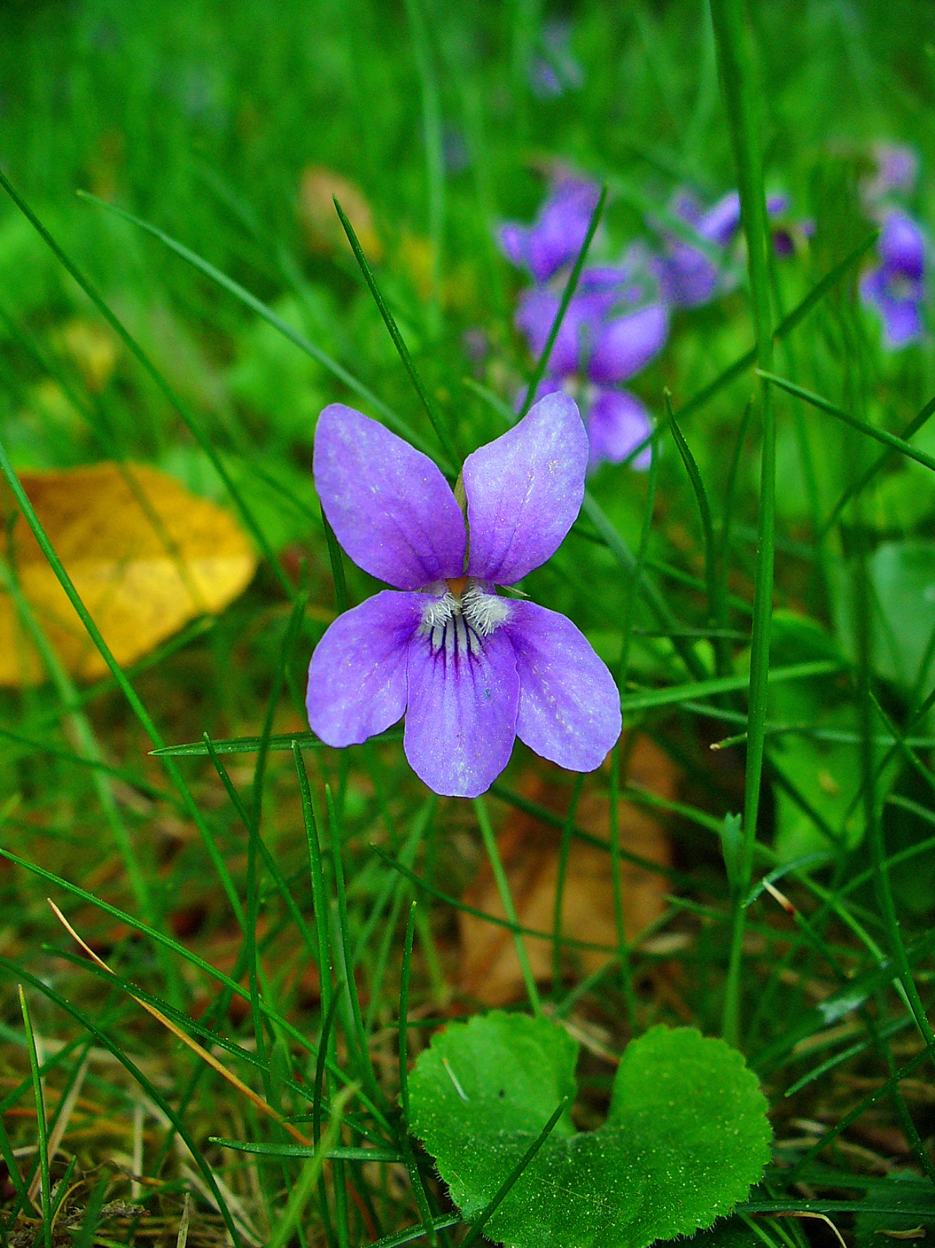 Viola odorata, Violaceae, sweet violet, flower; Karlsruhe, Germany.